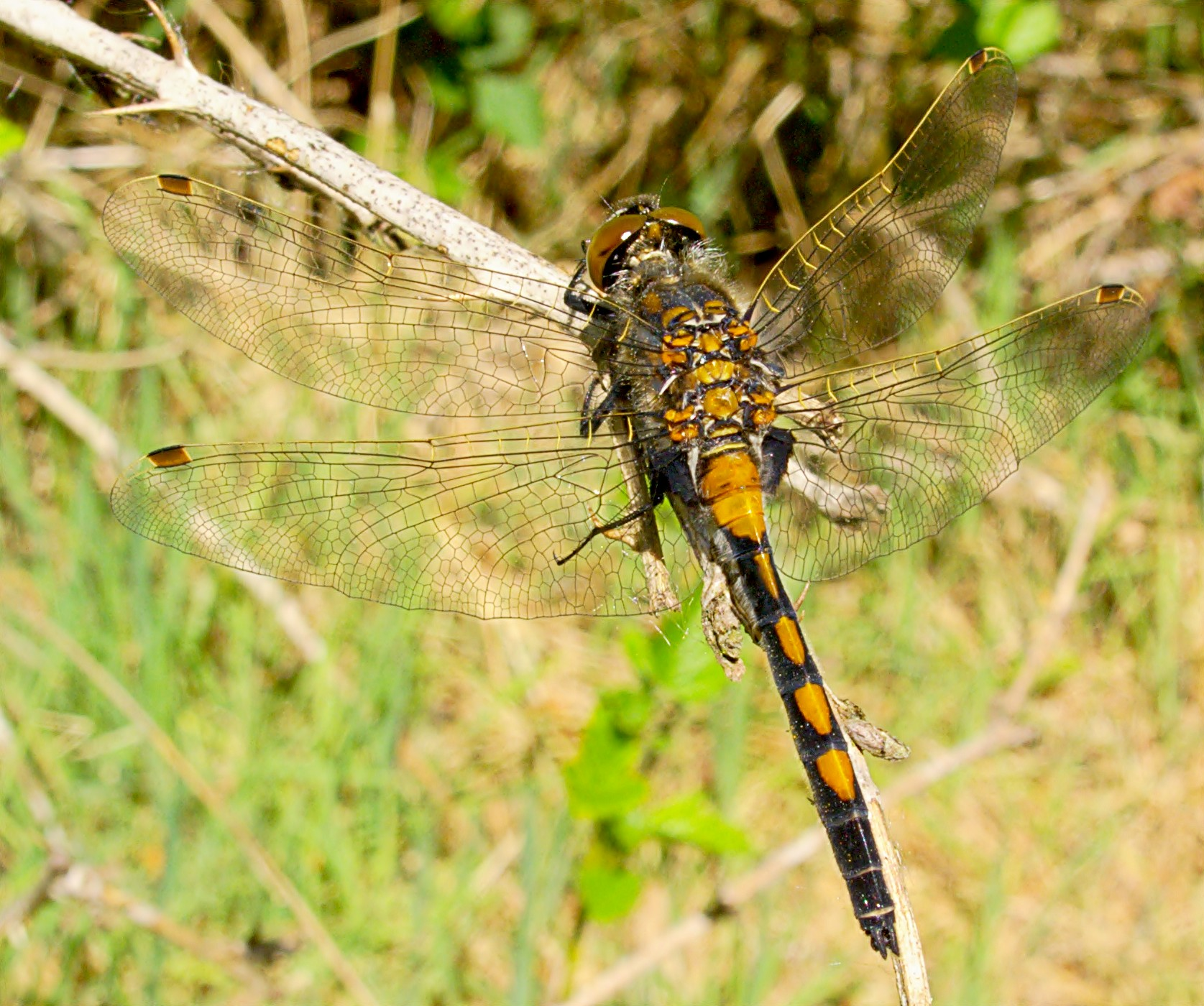 Name: Leucorrhinia rubicunda. Family: Libellulidae. Location: Münster, NRW, Germany